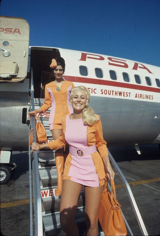 PSA Flight Attendants From PSA Slide Collection Repository San Diego Air and Space Museum Archive